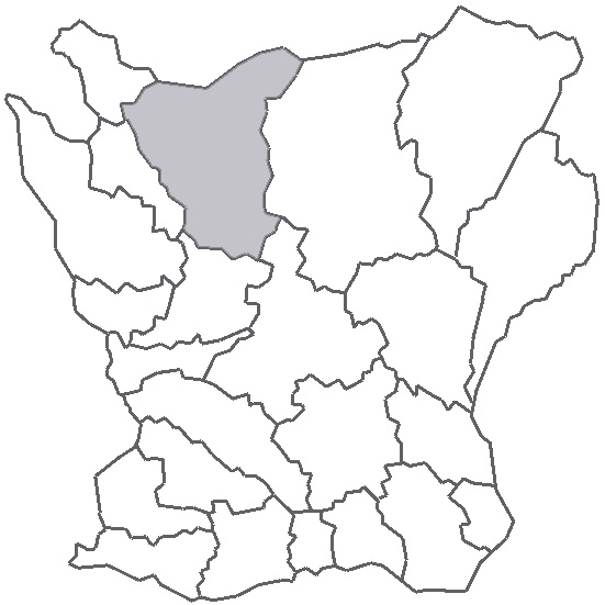 Map describing the location of Åsbo Northern Hundred in the province of Skåne, Sweden.